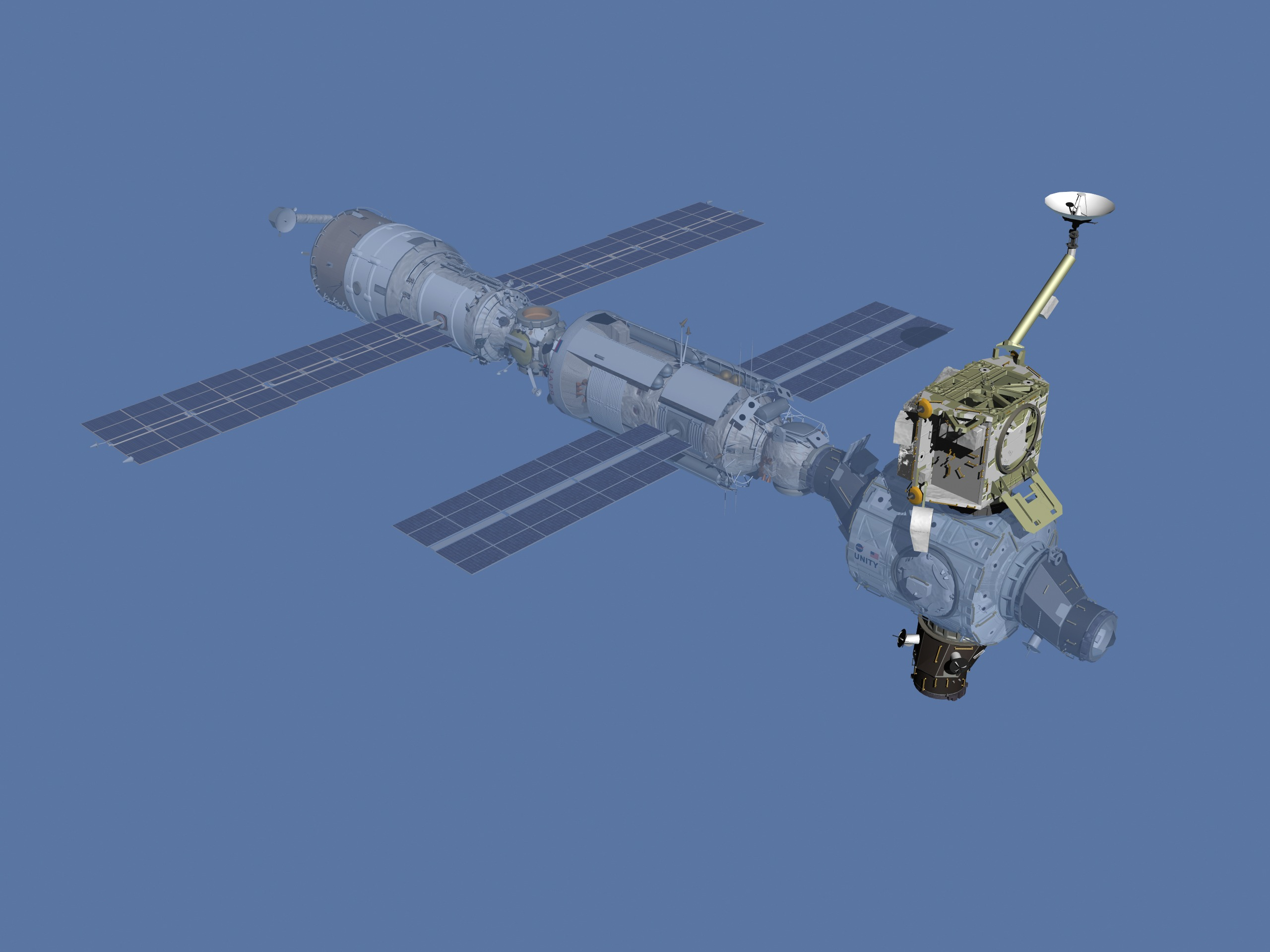 Arriving aboard Space Shuttle Discovery, the STS-92 crew installed the Z1 truss, a third pressurized mating adapter and a Ku-band antenna